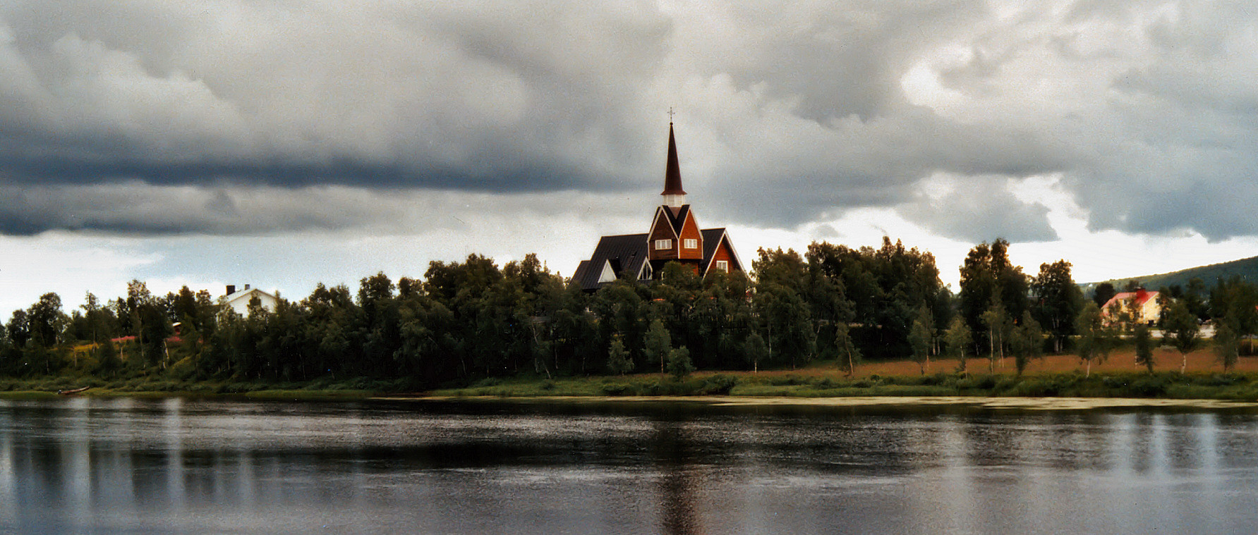 wooden church of Karesuando, Sweden